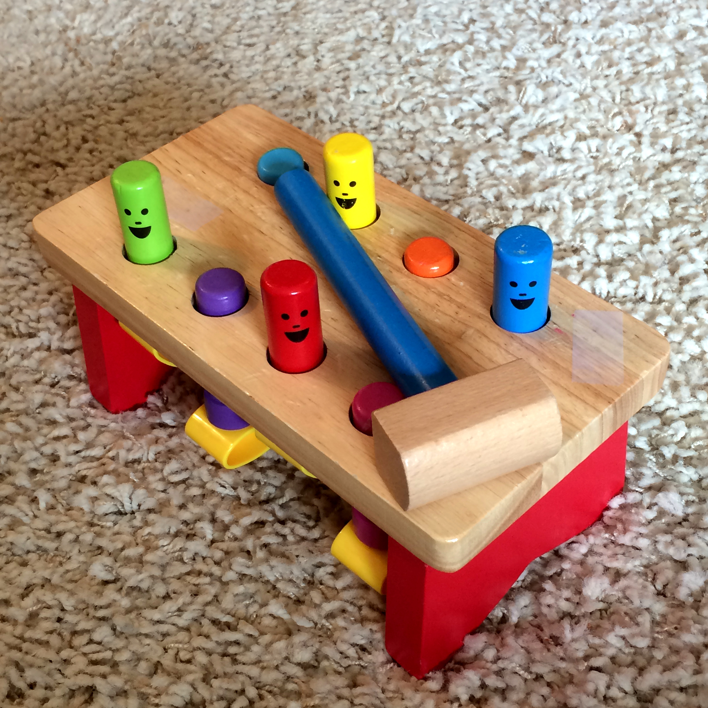 Wooden hammering toy.